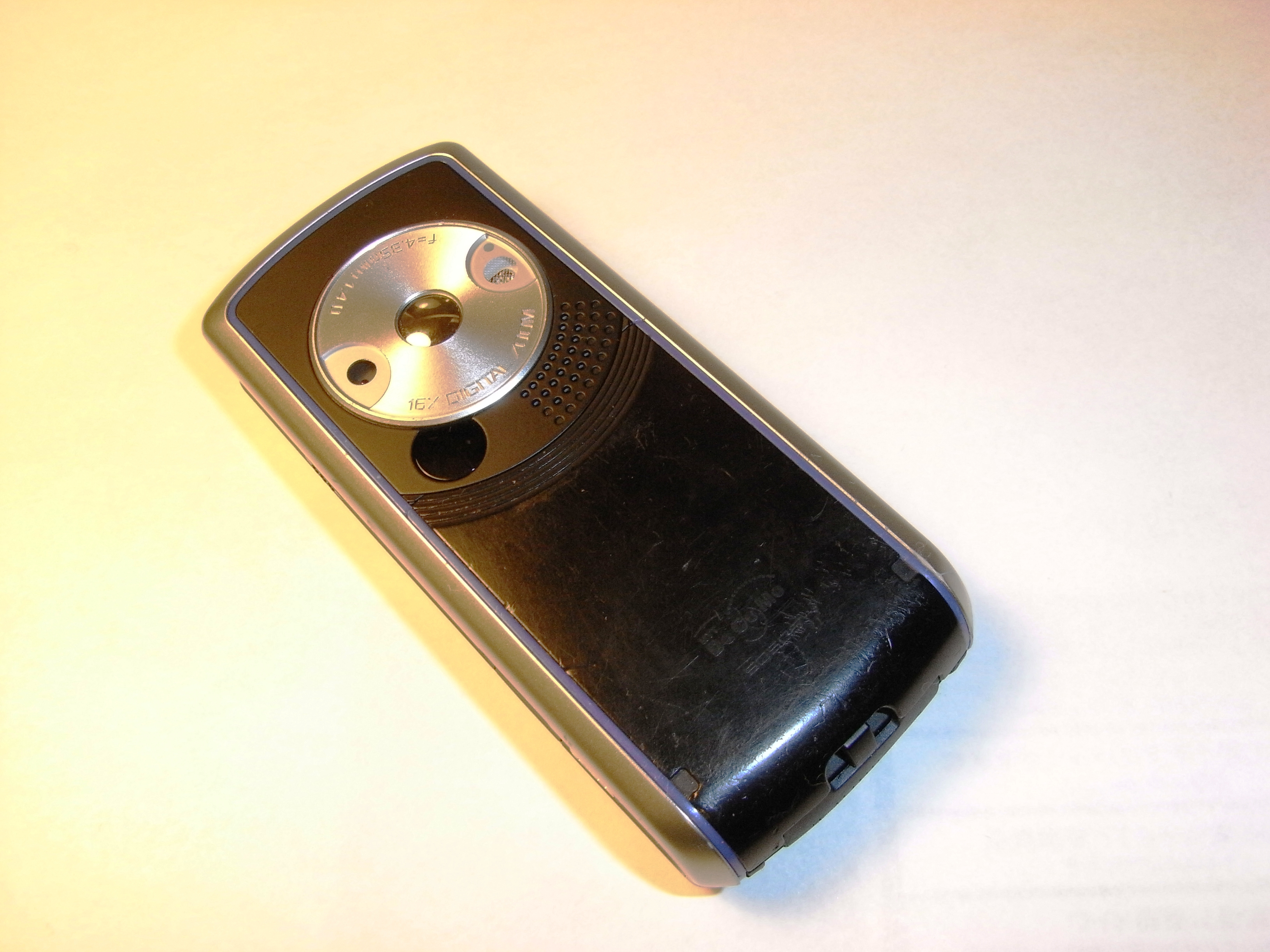 NTT DoCoMo SO506i